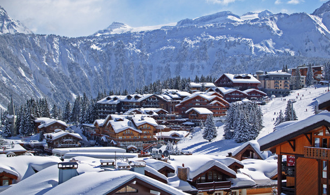 Klosters in Switzerland : view of the village. (150x Optical Zoom)